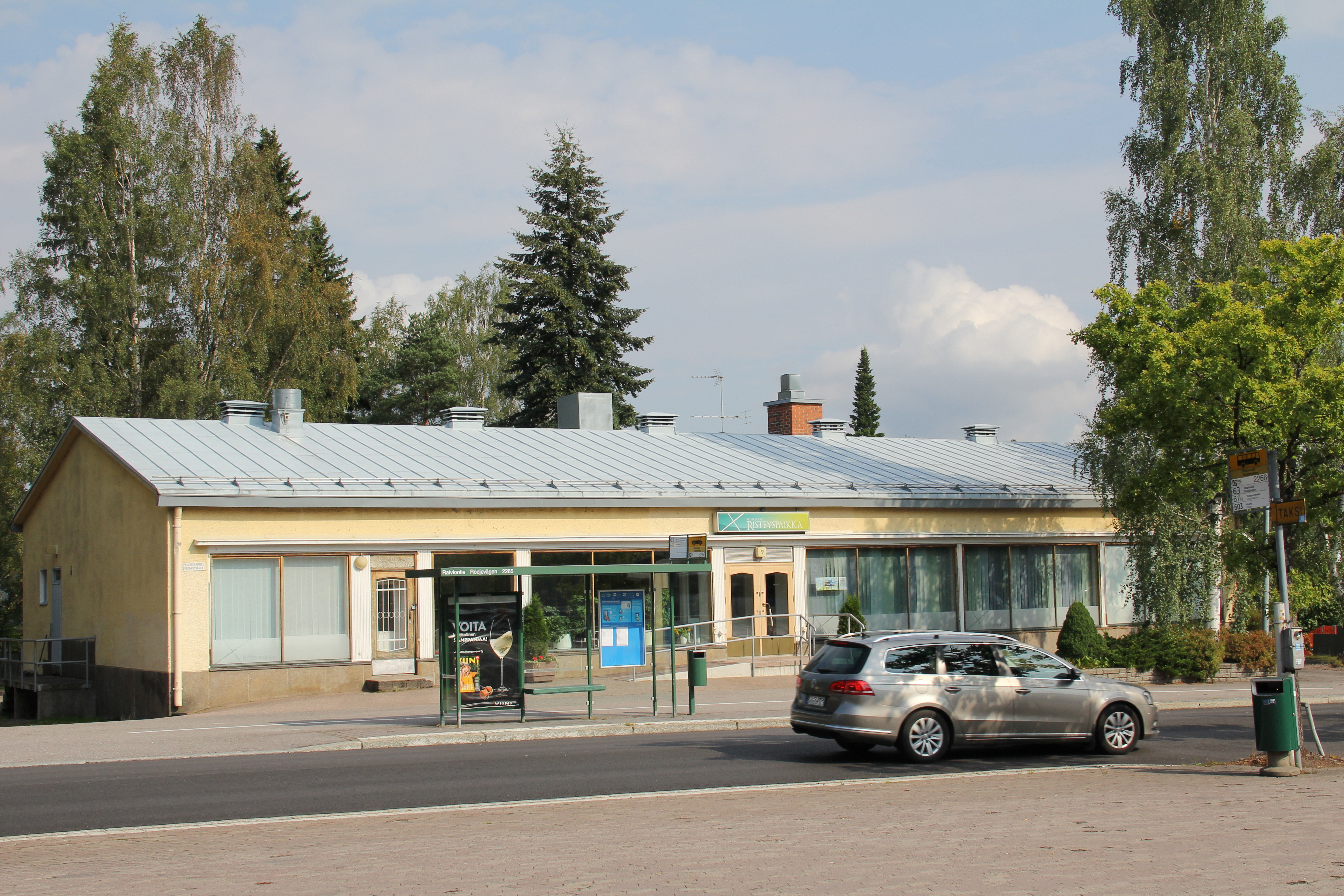 Kotikirkko Risteyspaikka premises, Paloheinä, Helsinki, Finland.